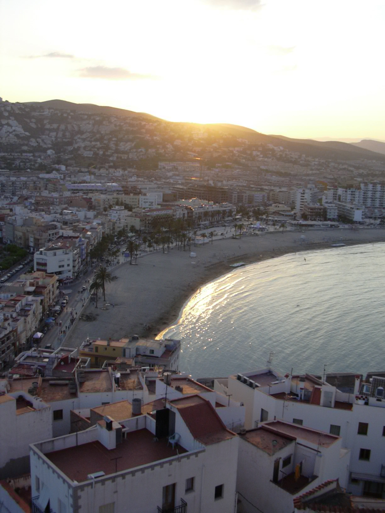 Peñíscola's coast, Castellón